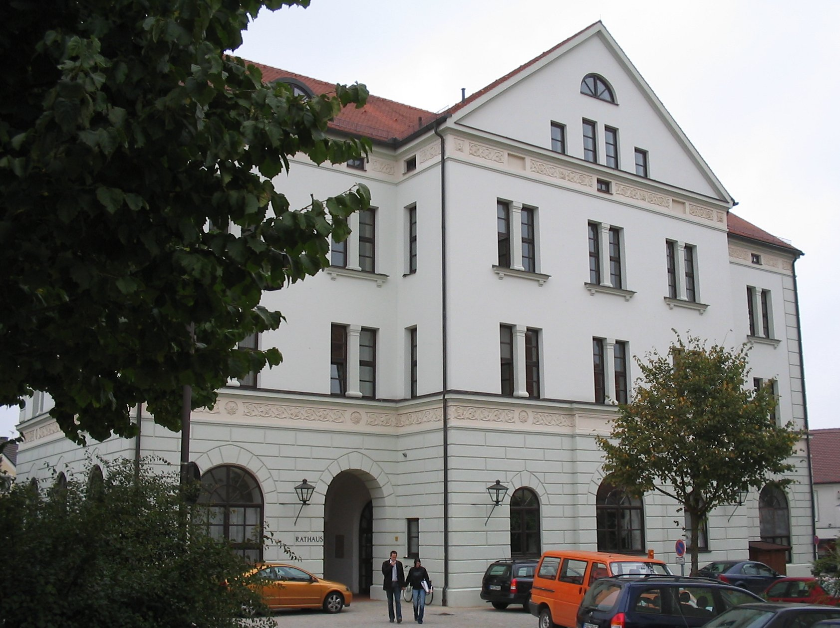 Town hall of Geisenfeld, Bavaria, Germany